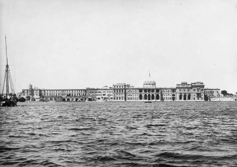 The Ras el-Tin Palace in 1931, on the Mediterranean coast in Alexandria, Egypt. The royal summer palace, built in the mid 19th century, and used as such until the last king's abdication in 1953.